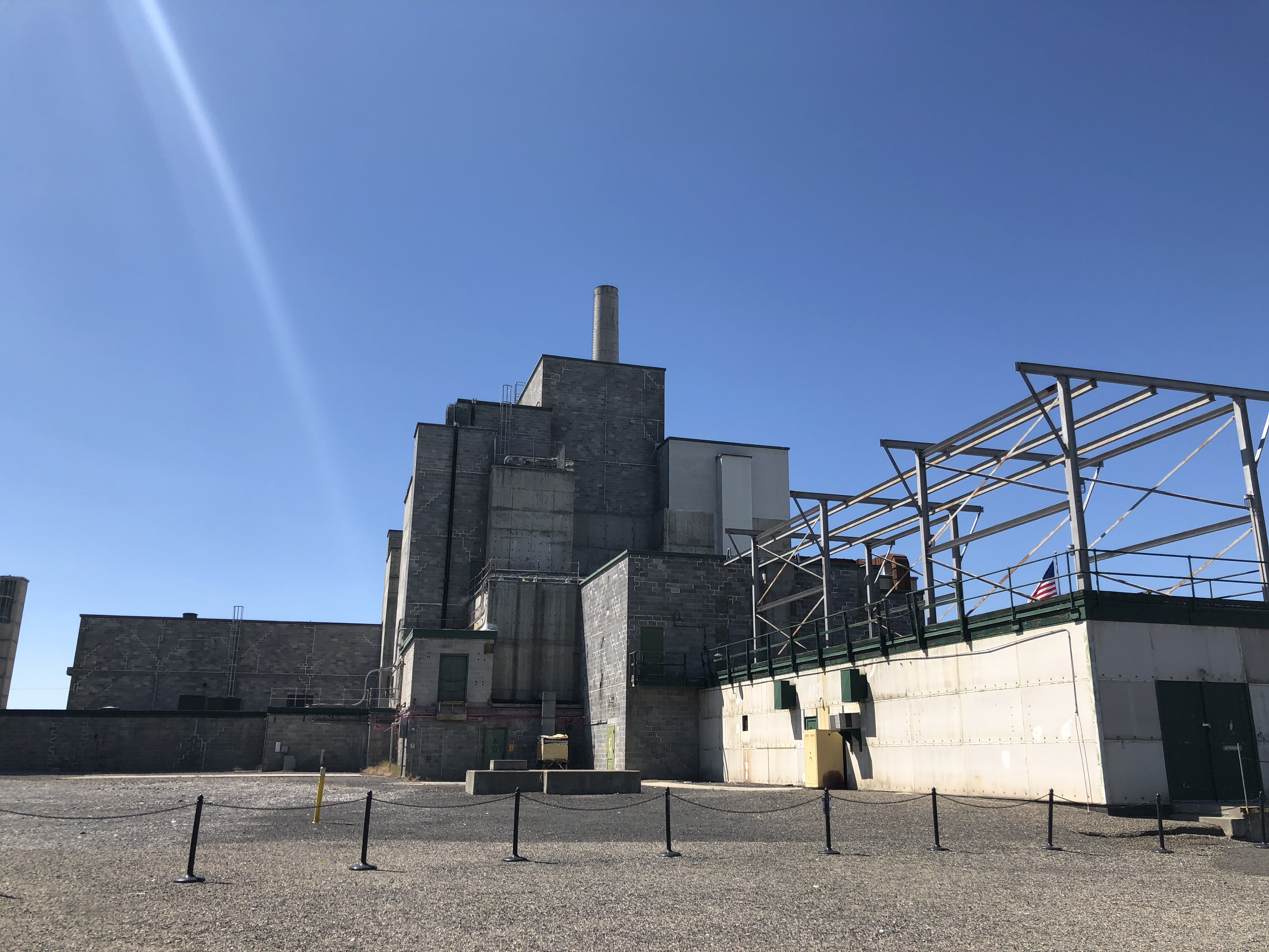 Exterior of the B reactor. Taken on July 19th 2018.